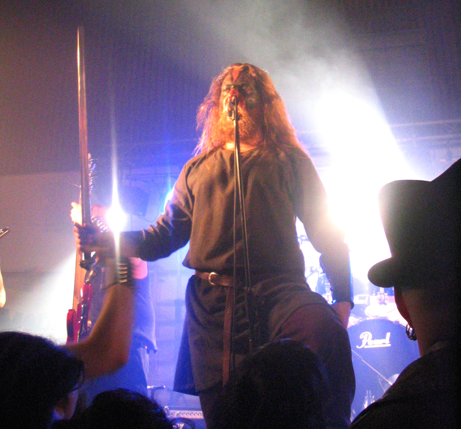 Photo of the Dutch dark metal musical group Slechtvalk performing on their At the Dawn of War minitour at Finland's Immortal Metal Fest, April 19, 2005.